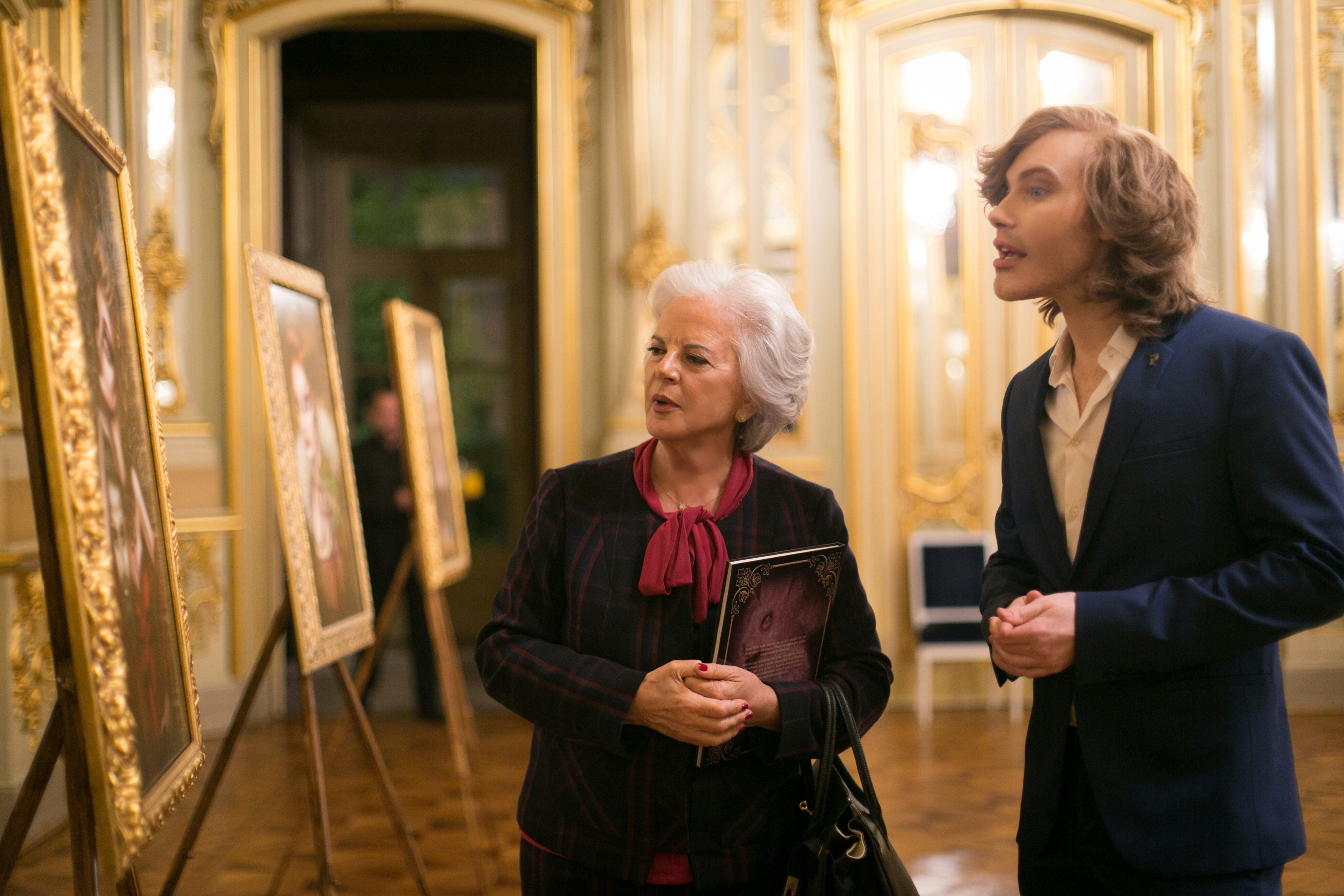 Tiago Azevedo with portuguese actress Lídia Franco at his book release in Lisbon